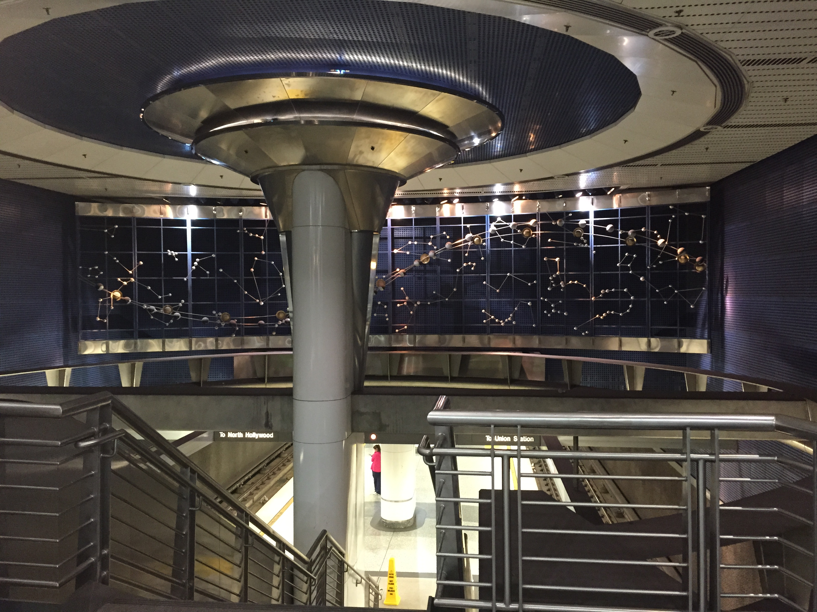 Platforms of the Vermont/Sunset LACMTA station in Downtown Los Angeles, California in 2016.